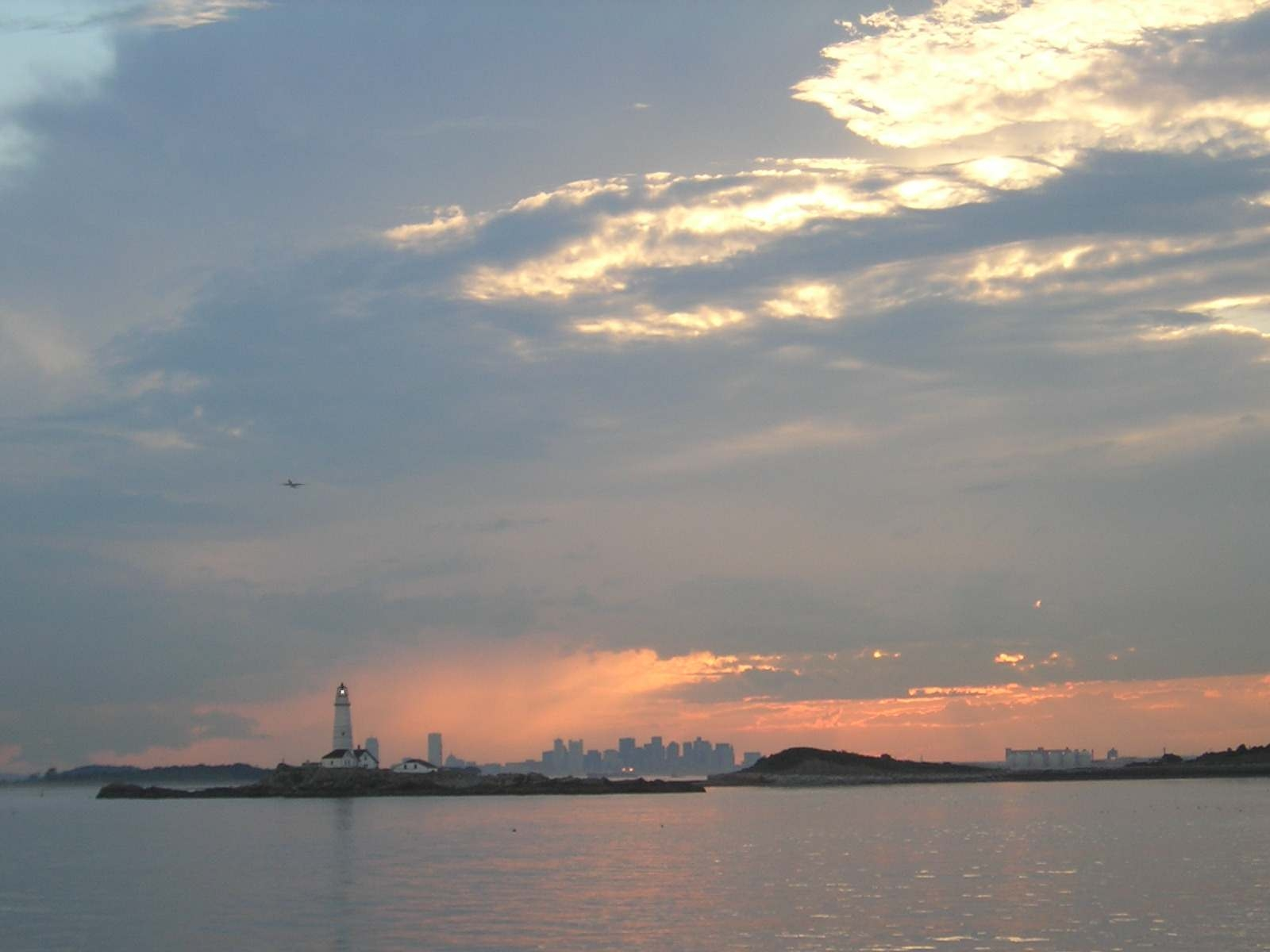 Boston Light and the City of Boston, MA, USA, from the sea.